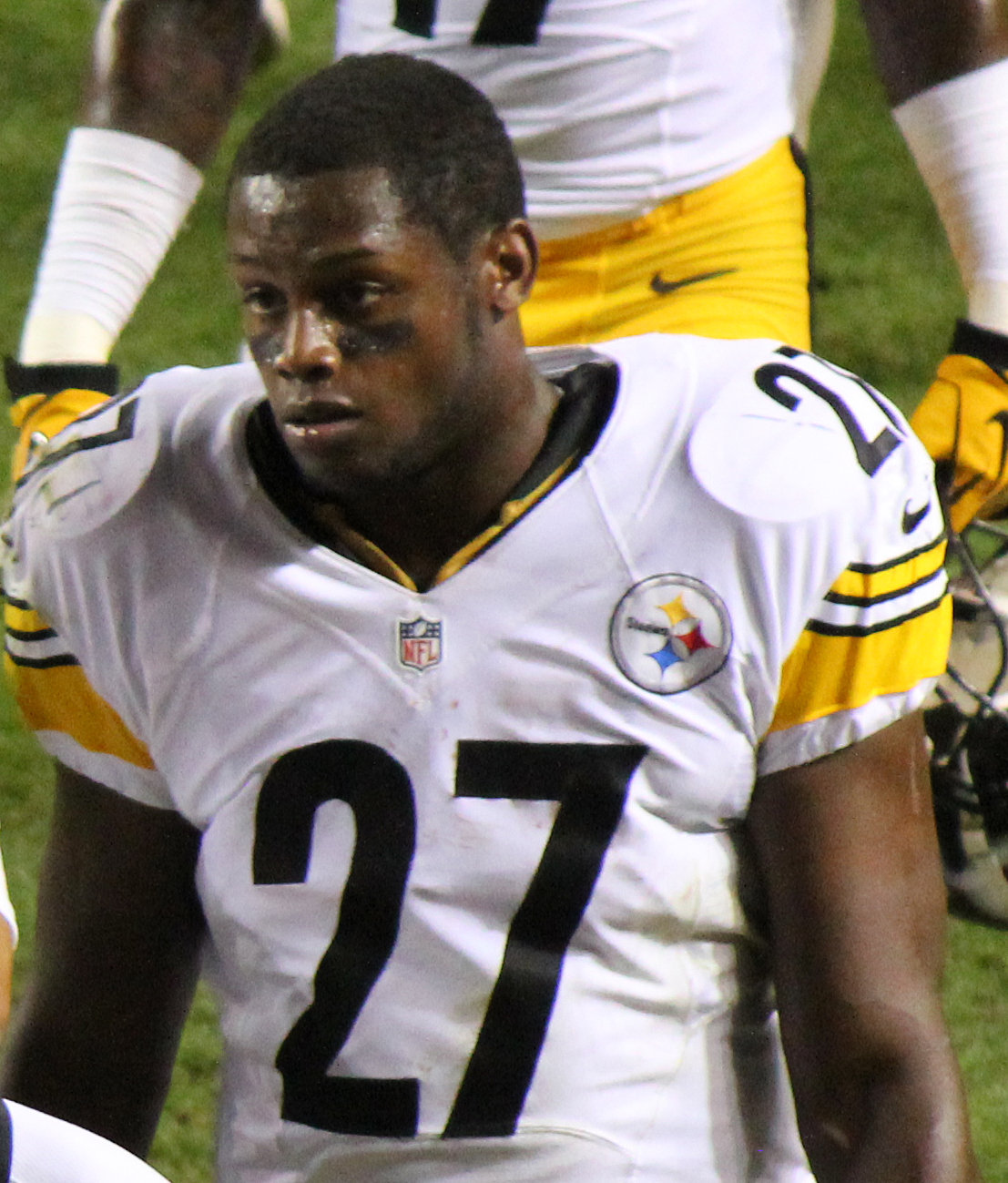 Jonathan Dwyer, a player on the National Football League.